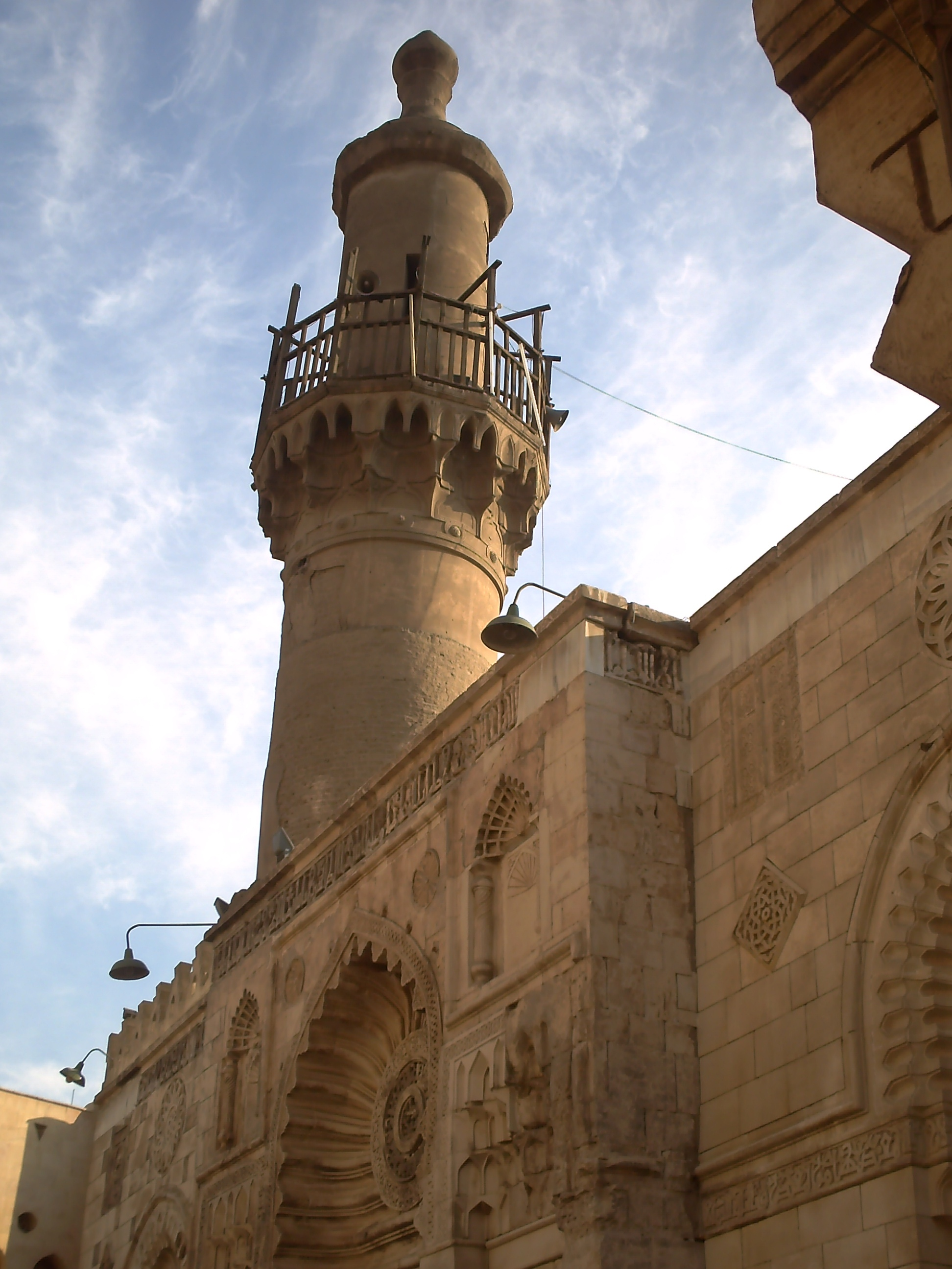 Aqmar Mosque